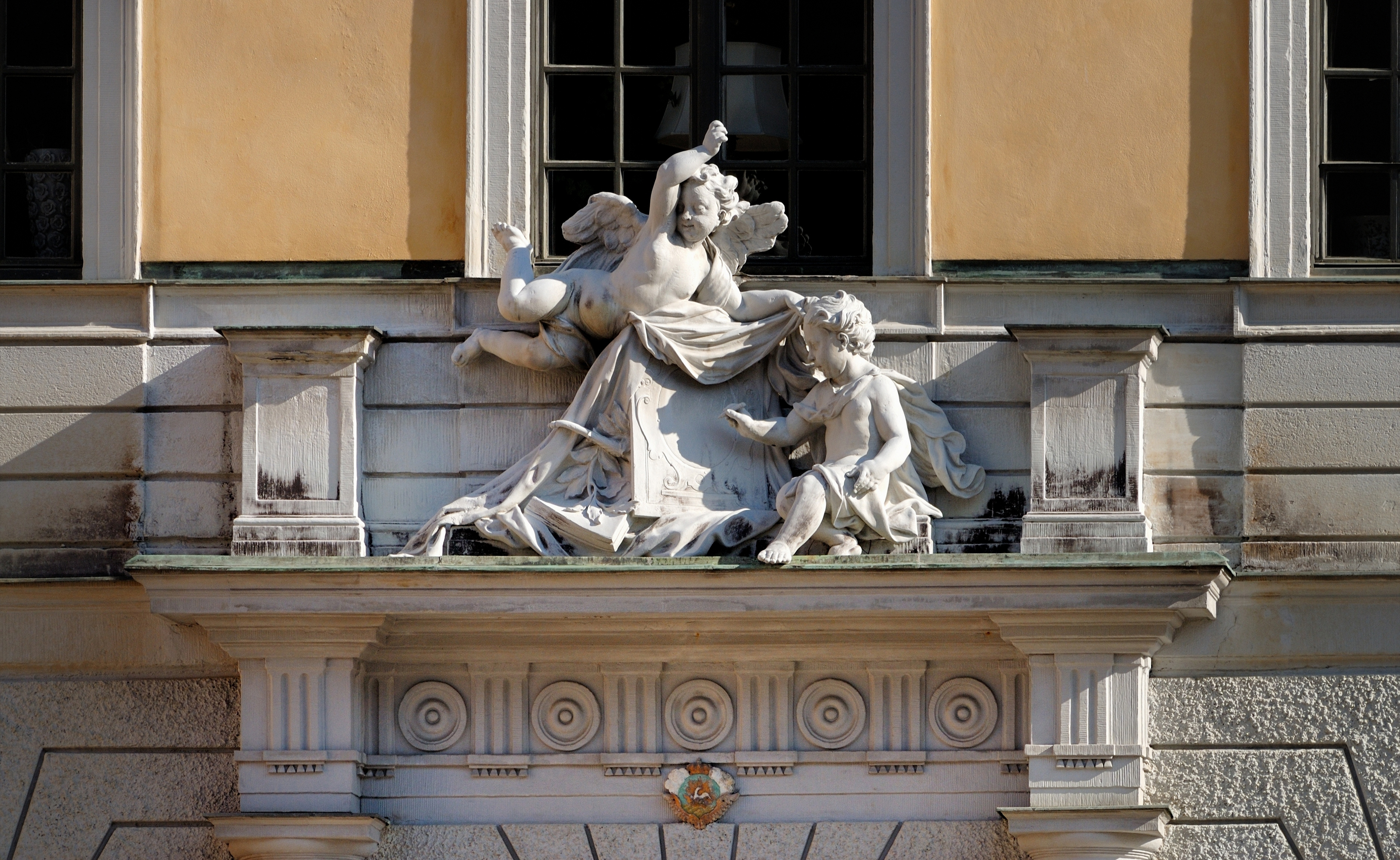 Tessin Palace, facade detail, Stockholm